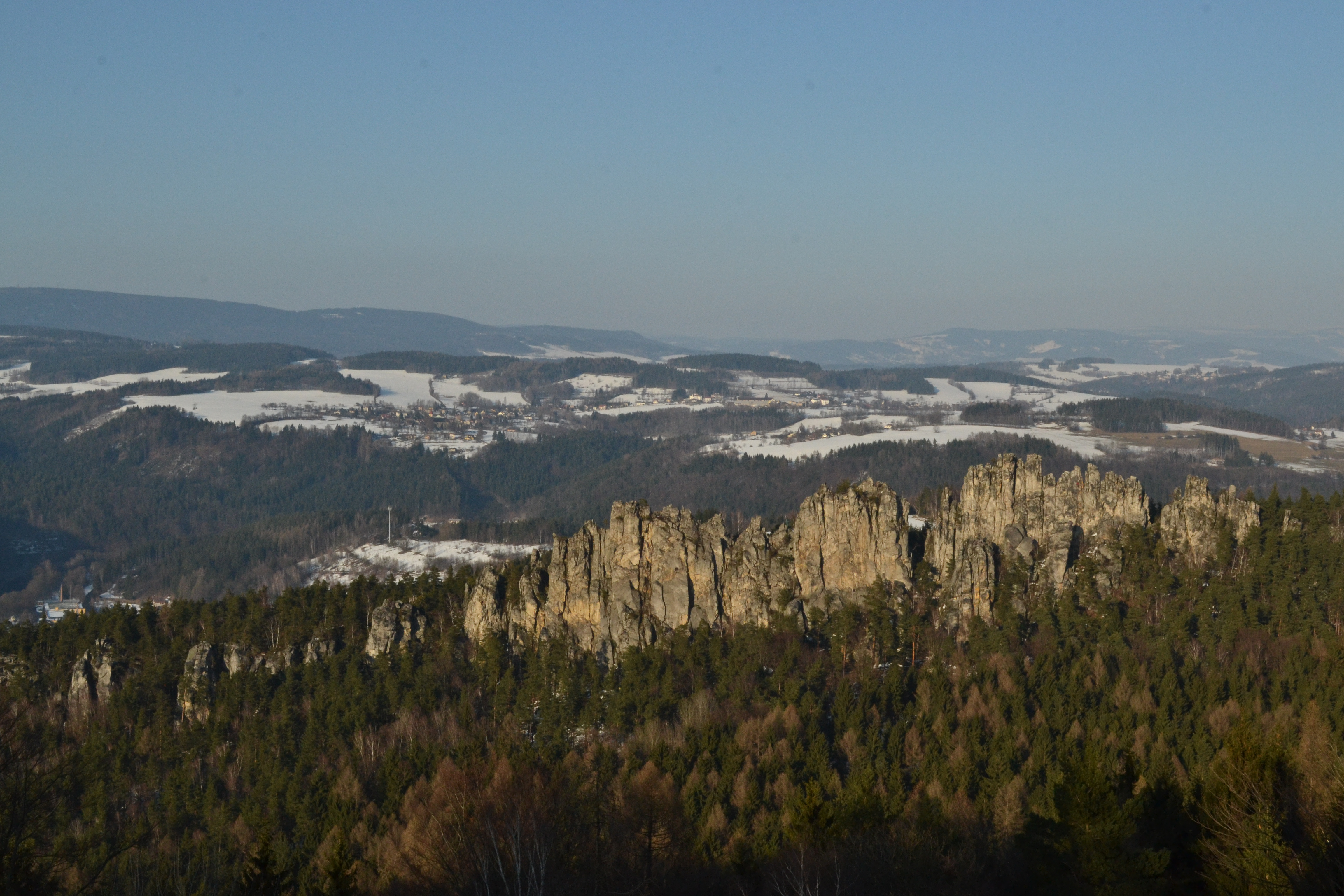 Pohled na okolní krajinu kolem Bzí, v popředí se Suchými skalami